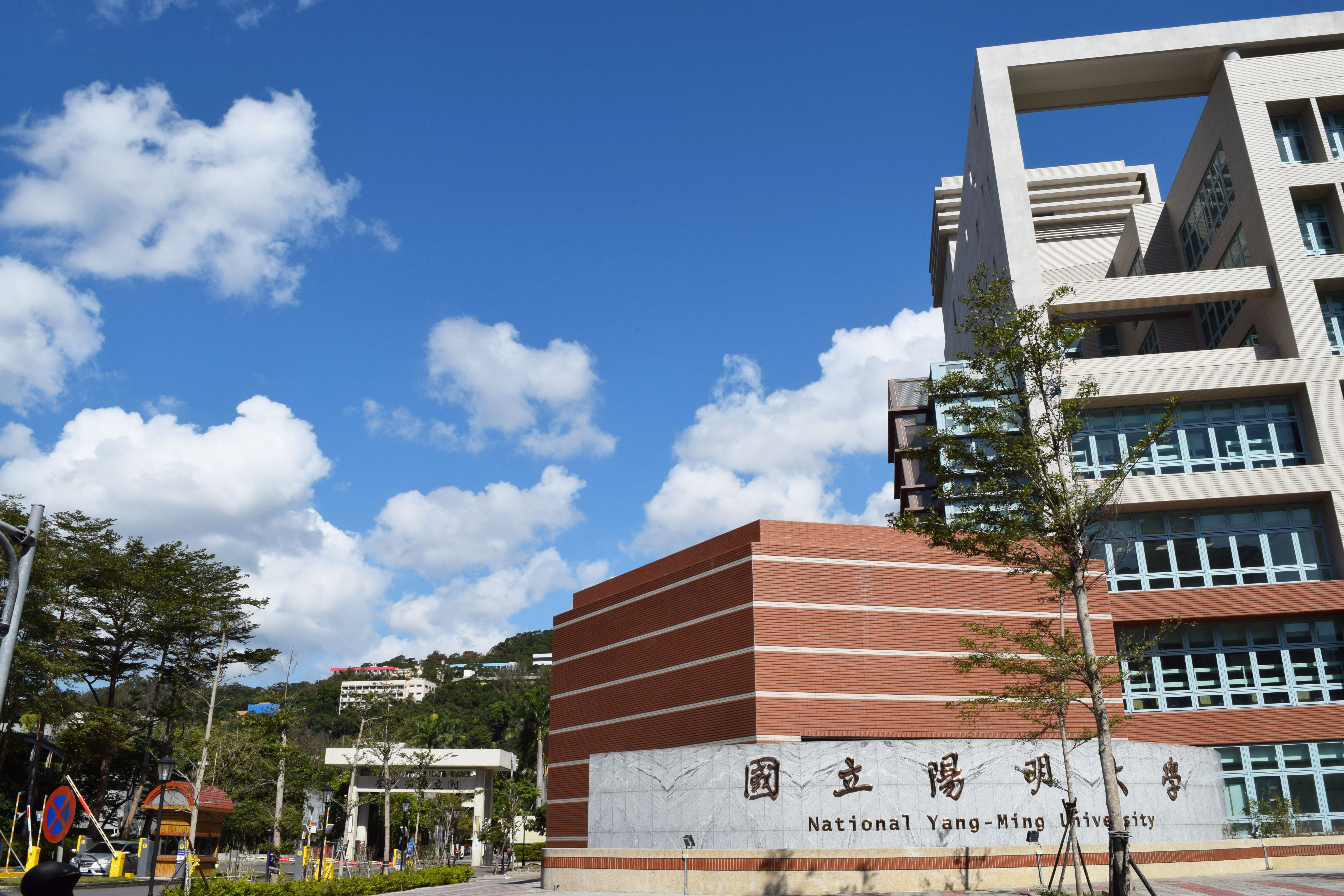 National Yang-Ming University, front view